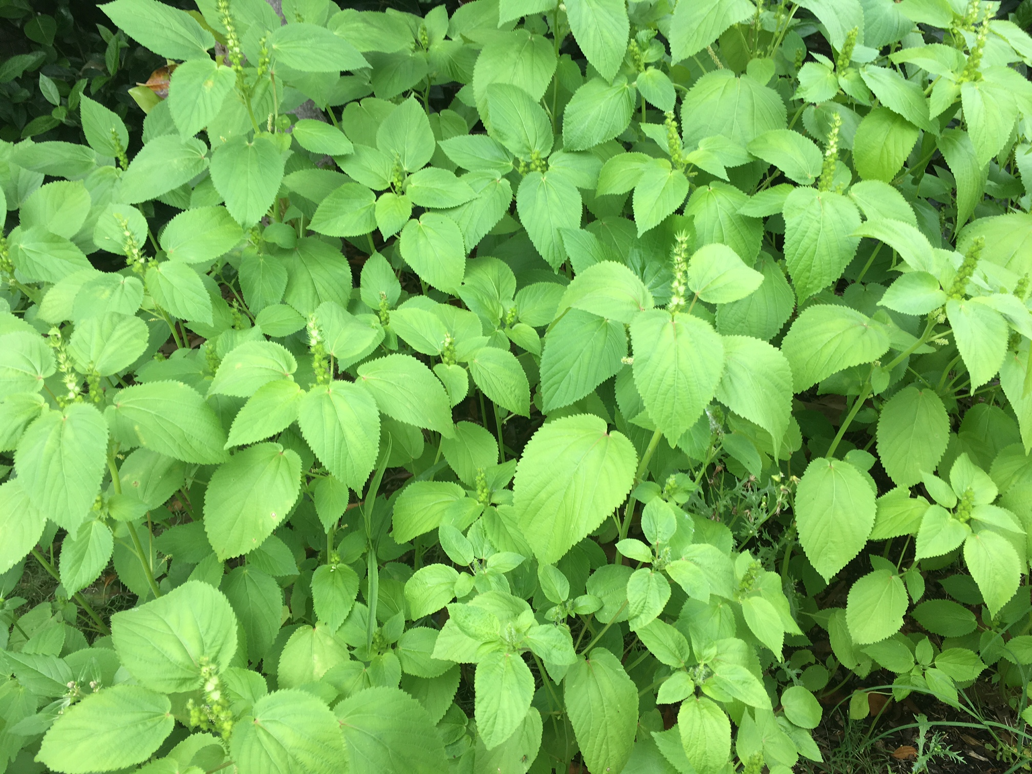 Acalypha ostryifolia, hophornbeam copperleaf, located in Dallas, Texas